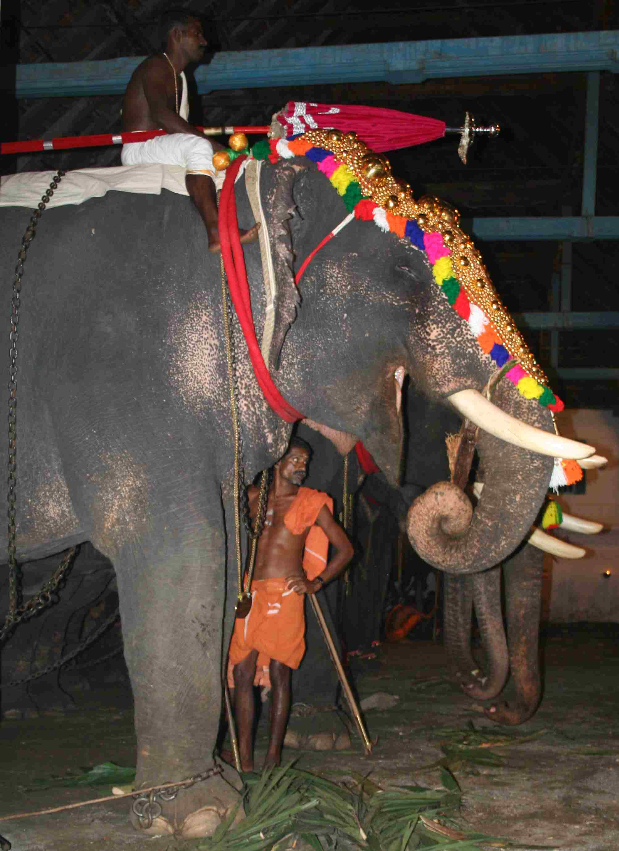 Caparisoned elephants during Sree Poornathrayesa temple festival, Thrippunithura, Kerala, South India.